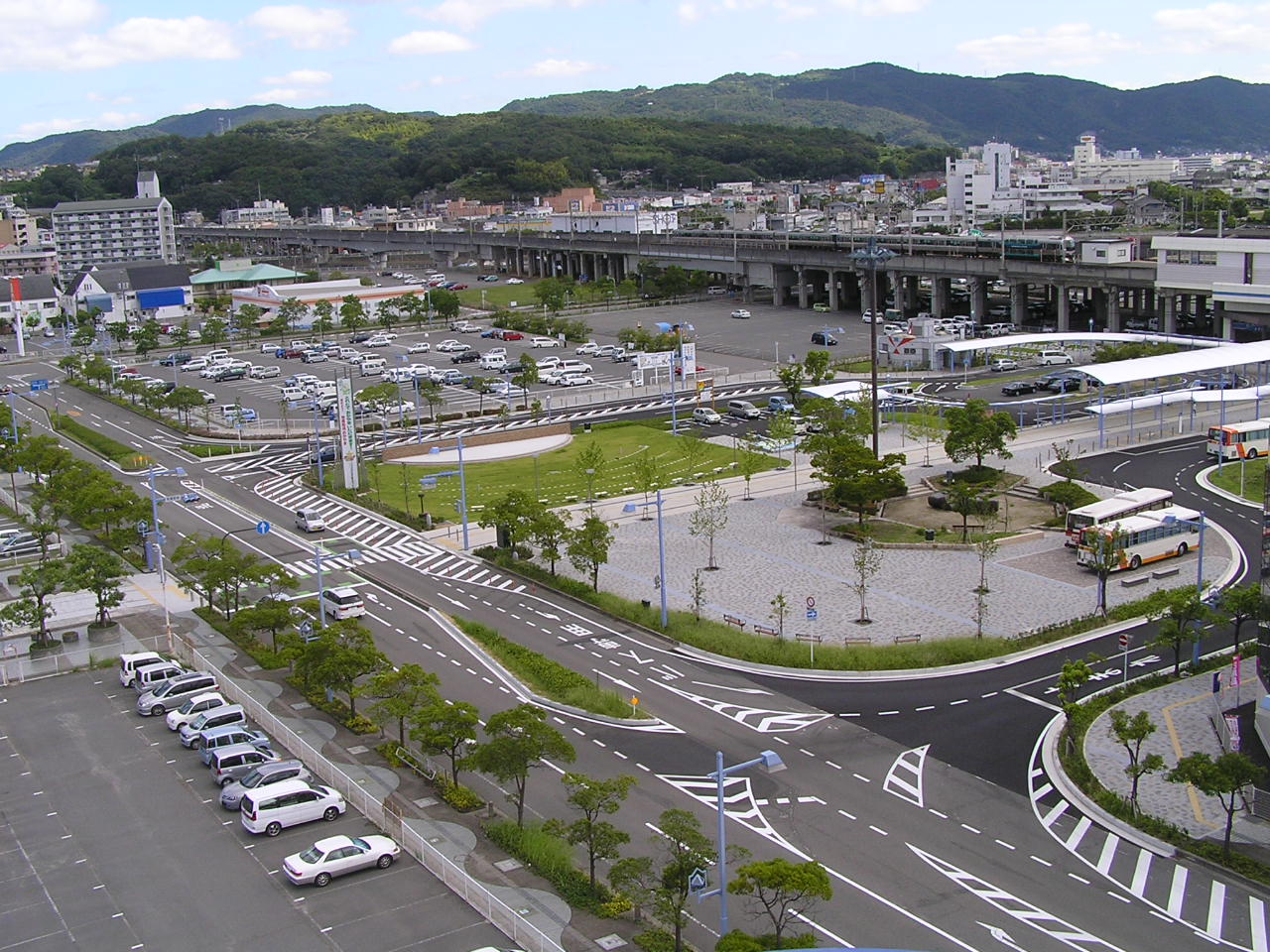 The plaza in front of JR Kojima Station.